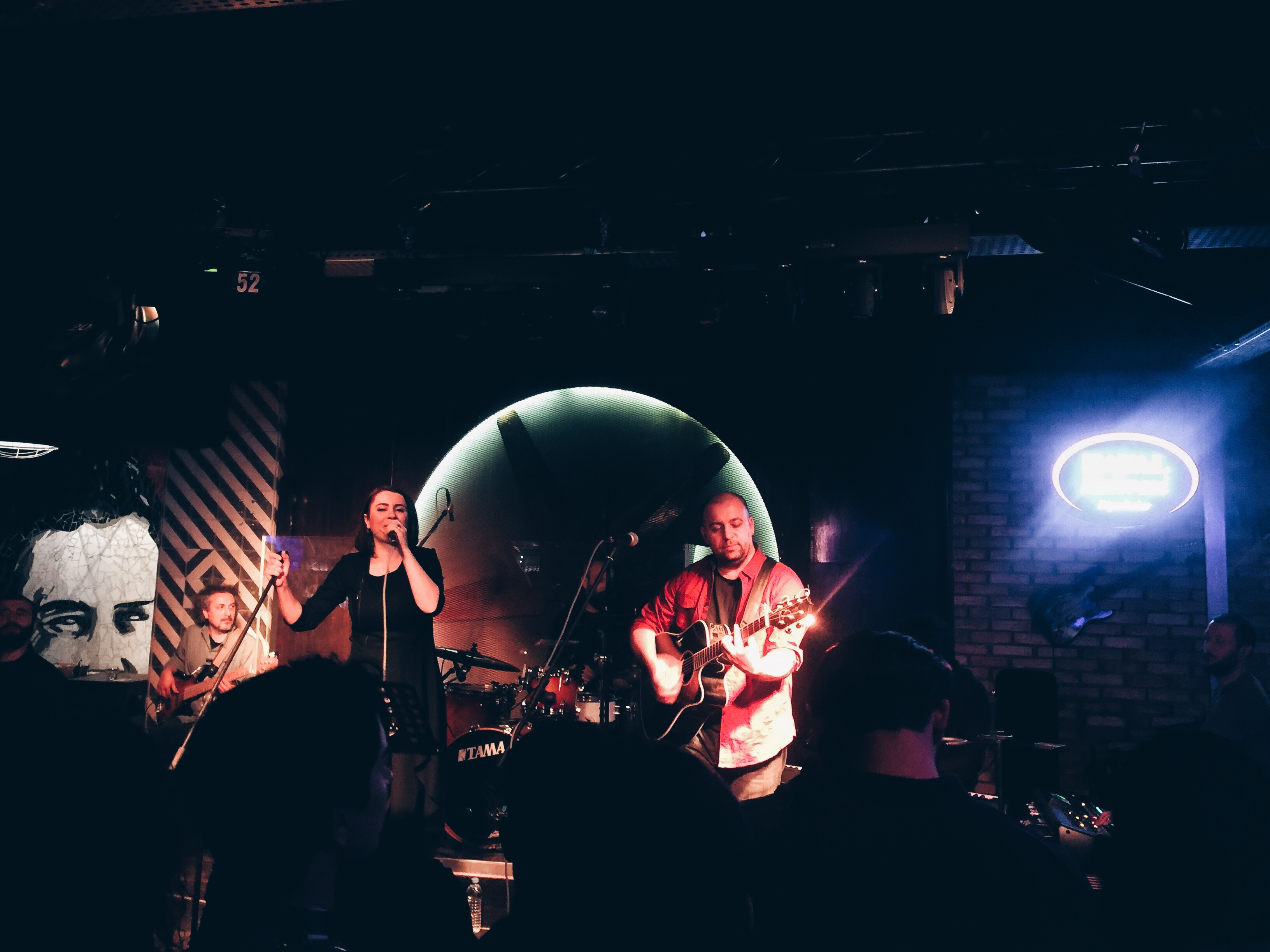 Turkish musical group Ezginin Günlüğü in Diyarbakir, 2017